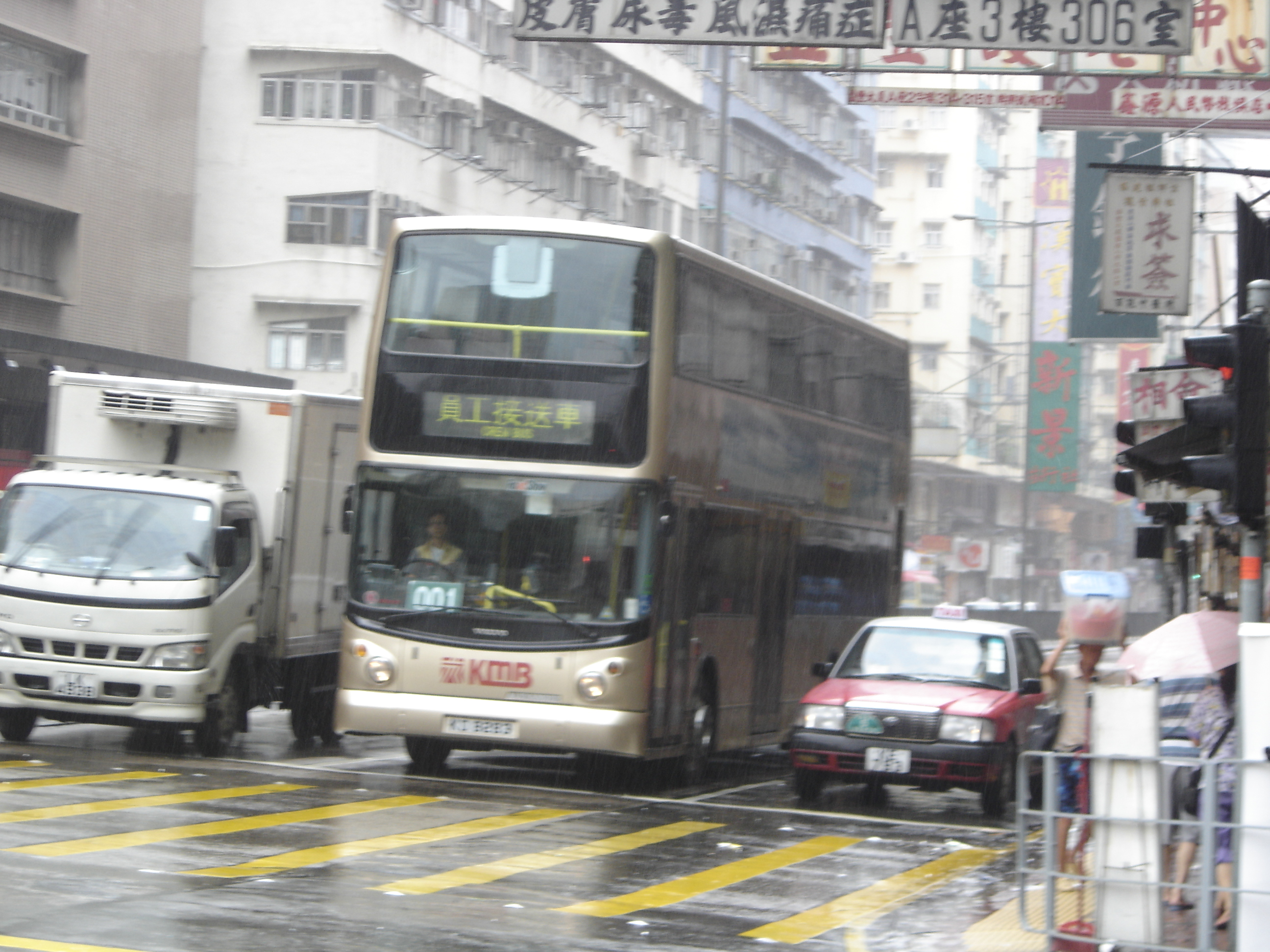 This is the bus for the employee of the KMB, HKSAR 中文（香港）: 九巴的員工接送車。